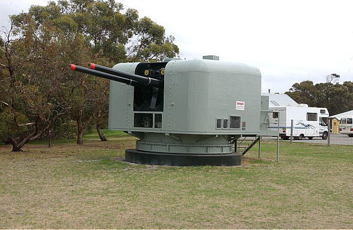 GUNS PLACED BY THE U.S. NAVY TO PROTECT THE SUBMARINE BASE at Princess Royal Fortress on Mount Adelaide, Albany, Western Australia